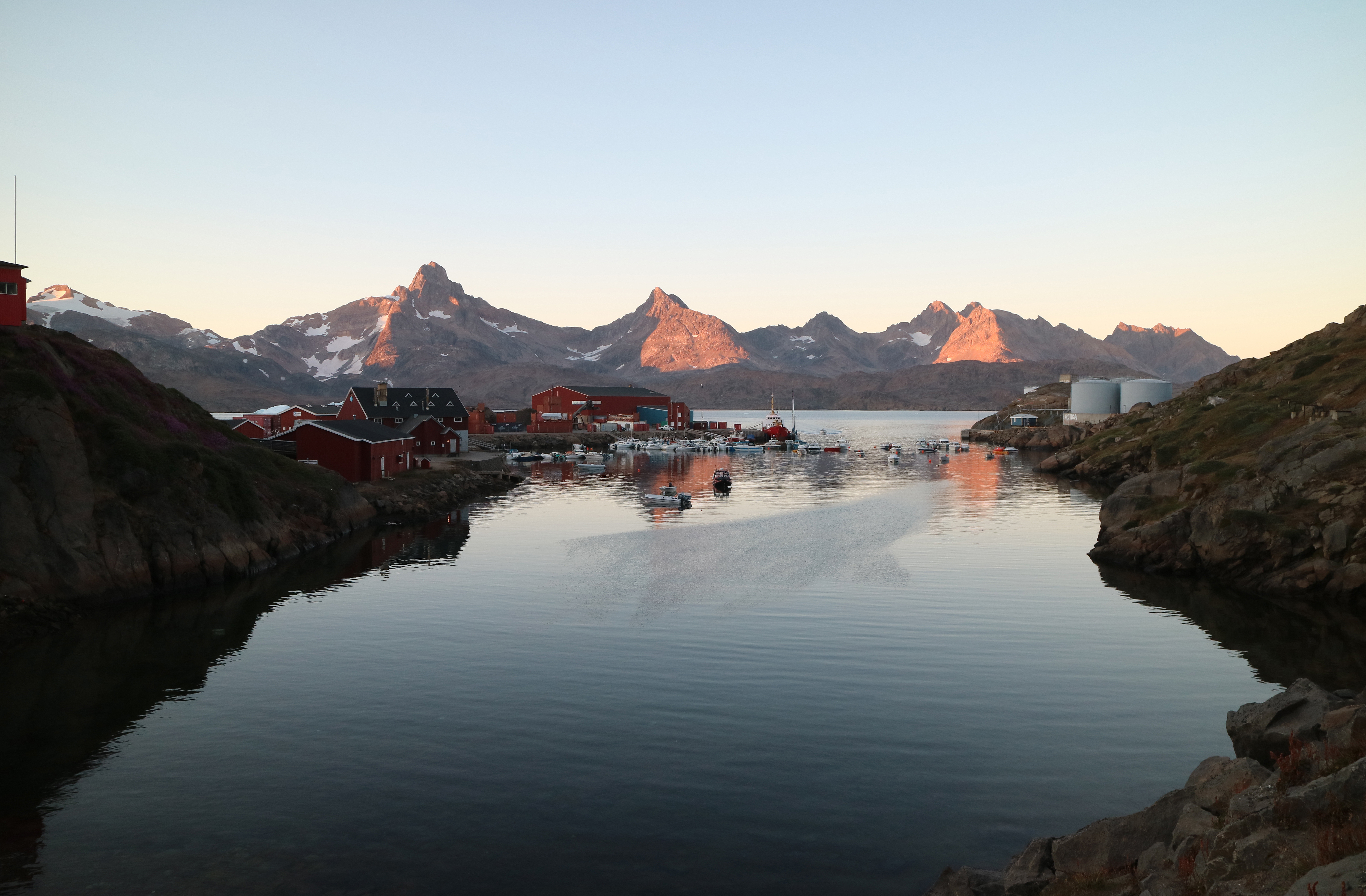 Tasiilaq harbor in the evening